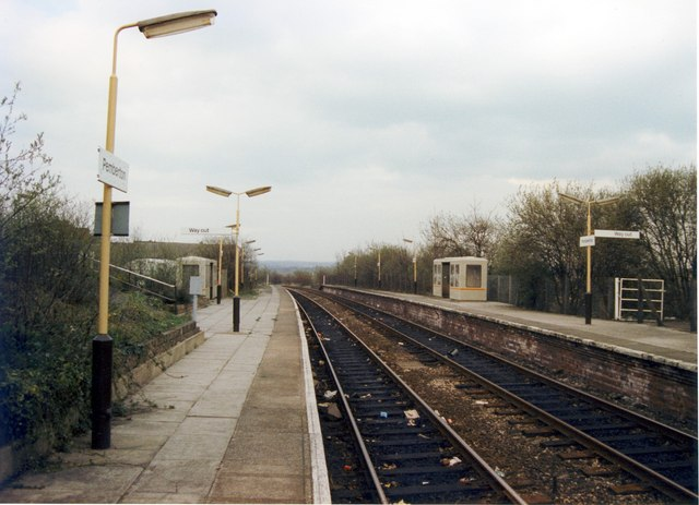 Pemberton railway station Original description: Pemberton station